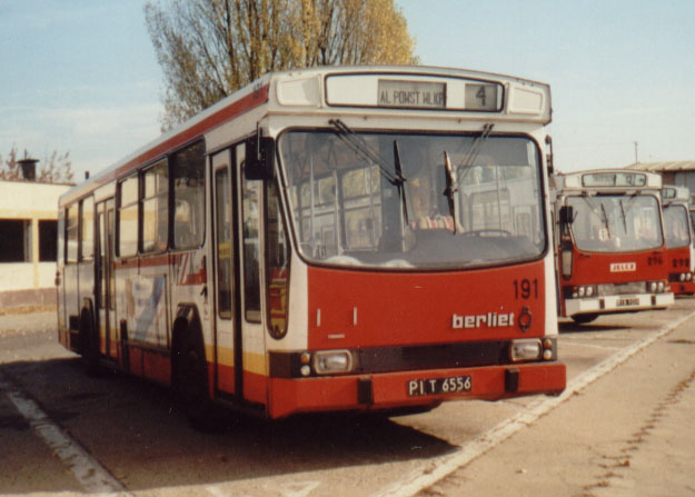 Berliet PR 100 MI bus (#191) in Piła, Poland. MZK Piła operator.